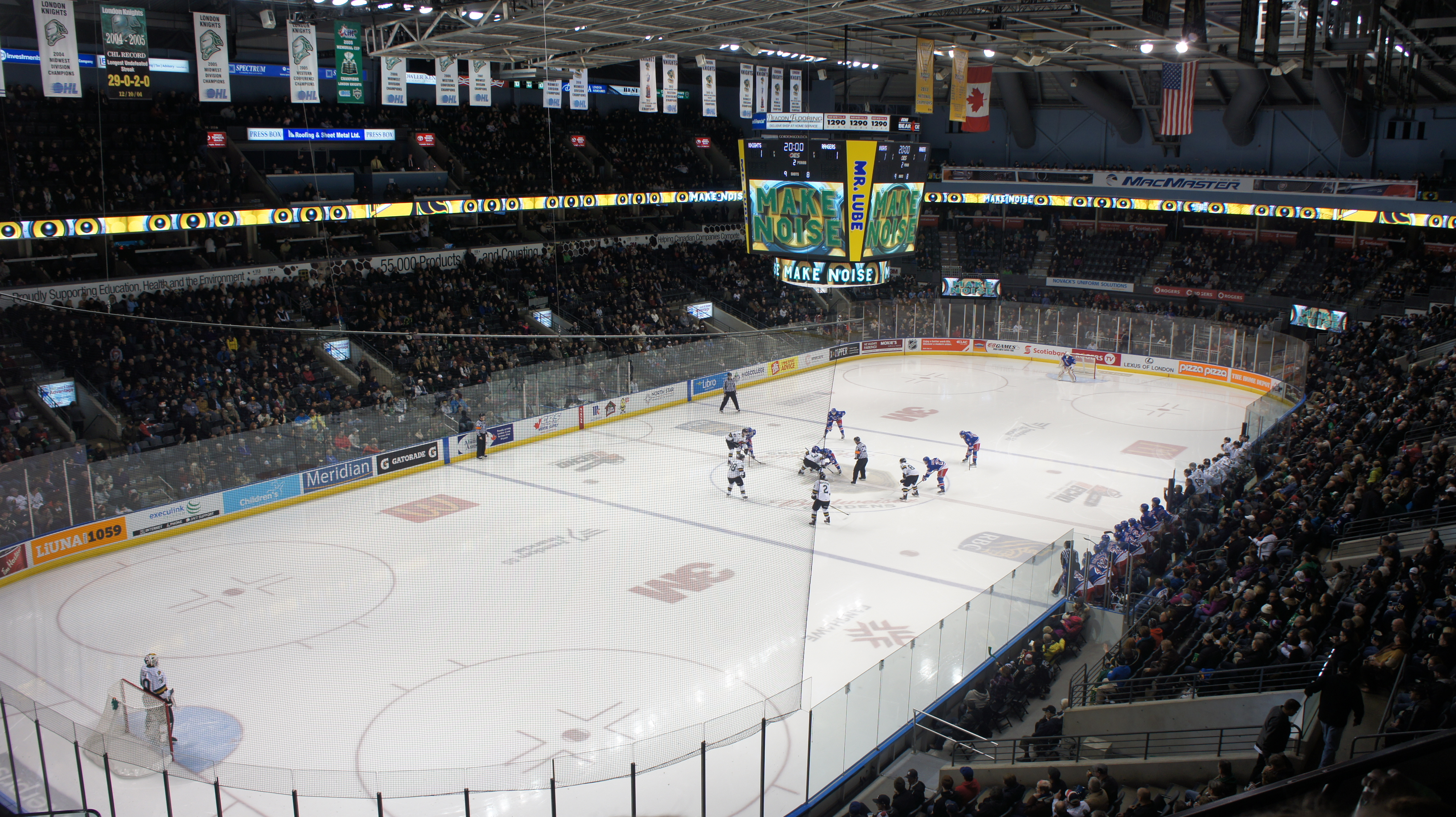 Budweiser Gardens - Interior, Kitchener Rangers @ London Knights, December 16, 2015